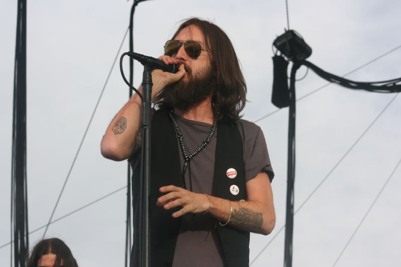 Chris Robinson - The Black Crowes